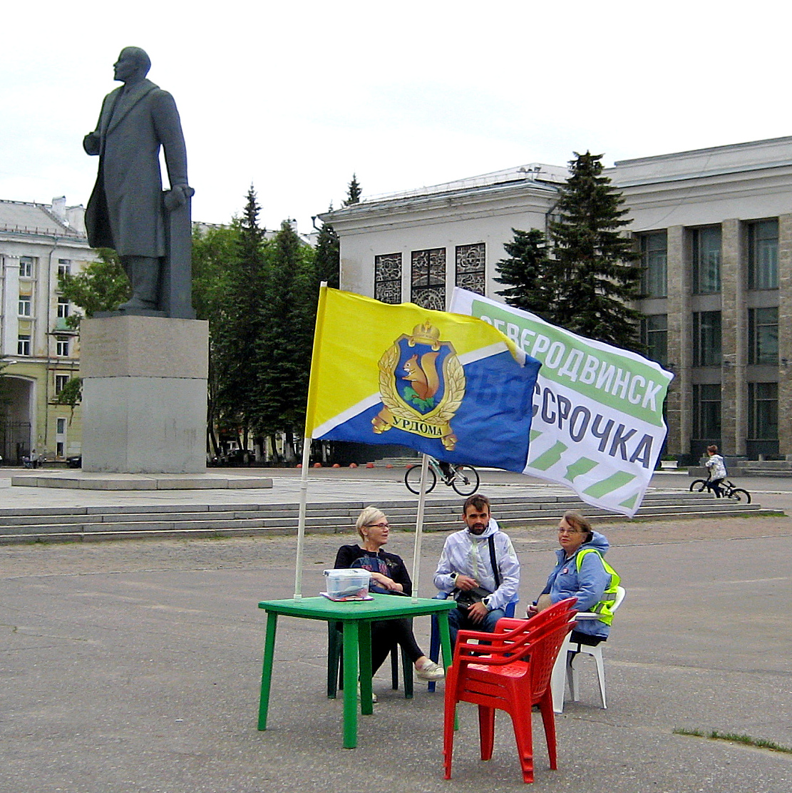 Lenina Prospekt, Severodvinsk.